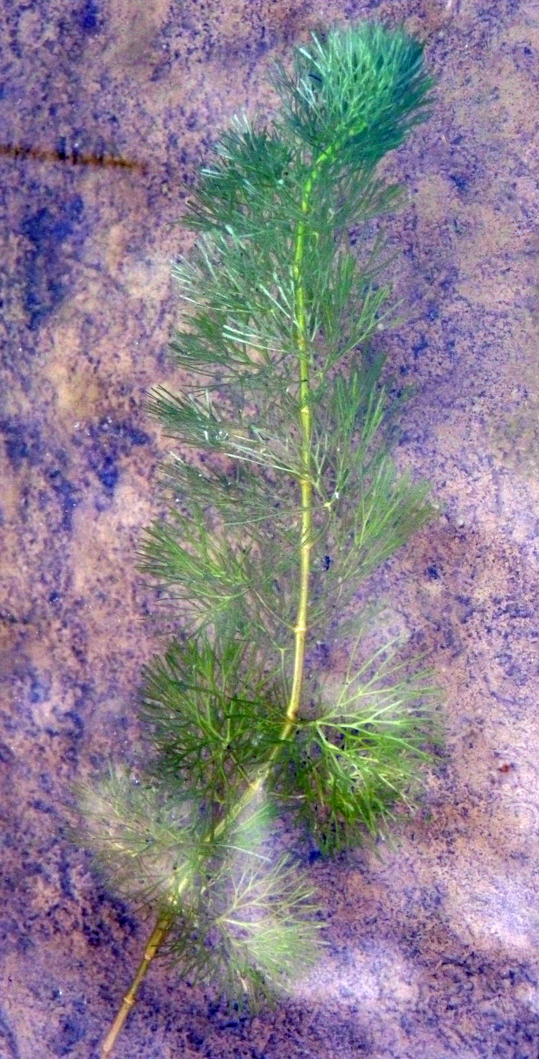 Cabomba caroliniana - Carolina fanwort